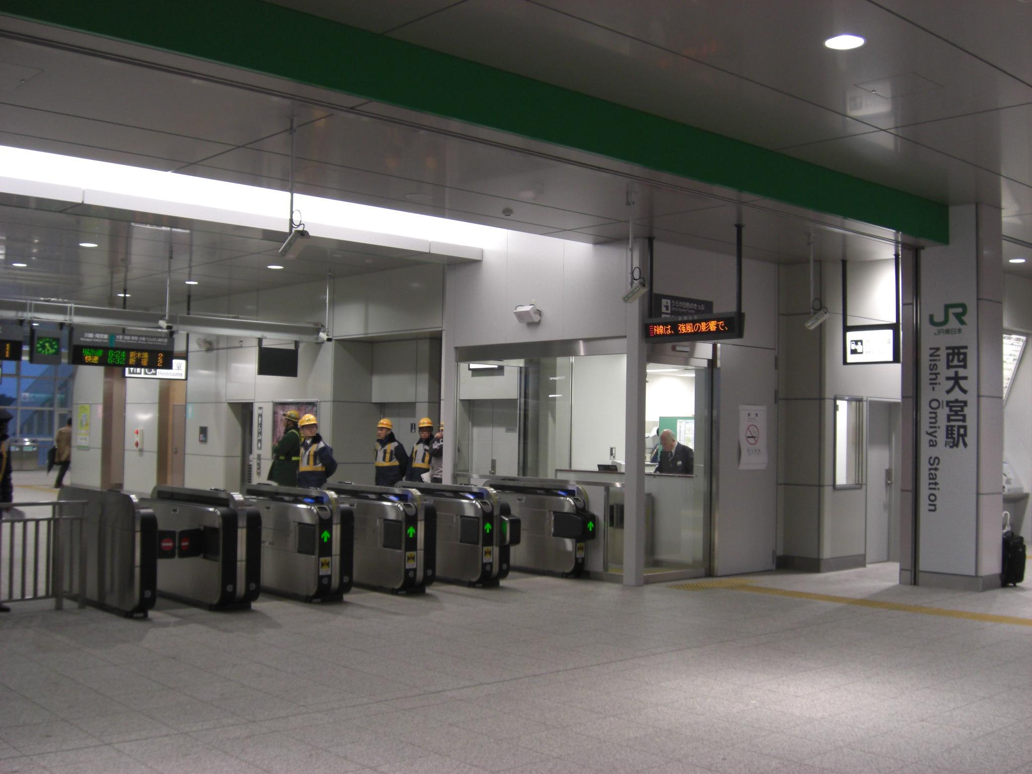 Ticket barriers at Nishi-Omiya Station on the Kawagoe Line